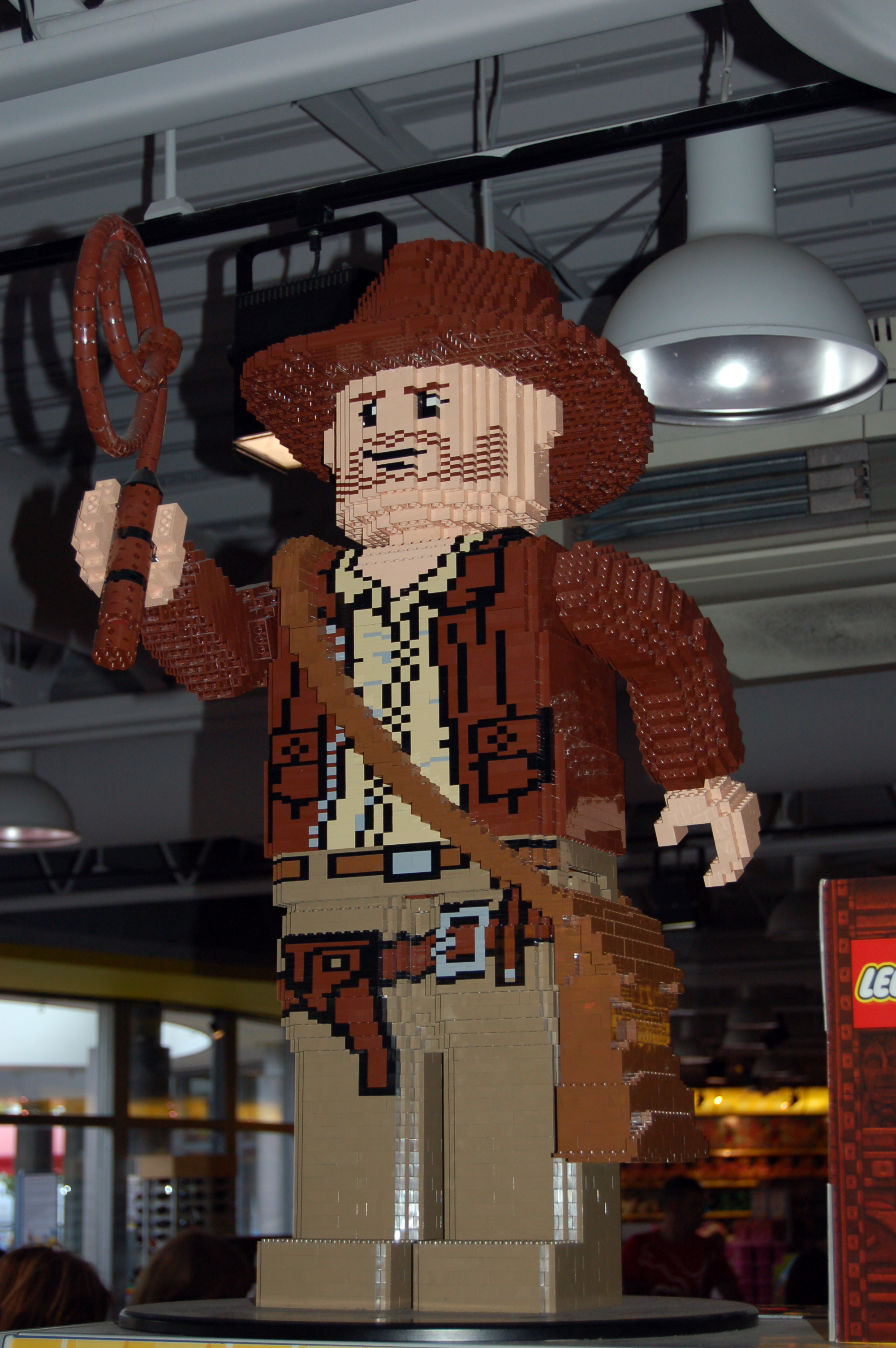 Legoland Windsor - Indiana Jones